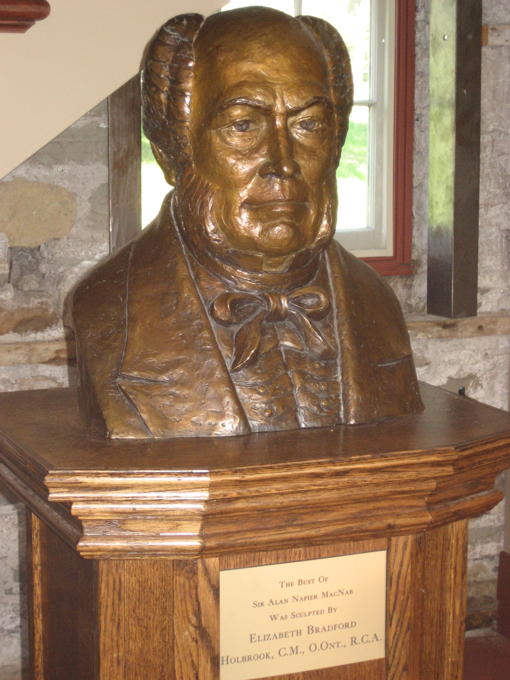 Sir Allan Napier MacNab, Dundurn Castle souvenir shop, Hamilton, Canada.